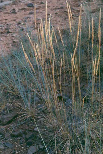 Lycurus sp. Forest Service photo, no copyright